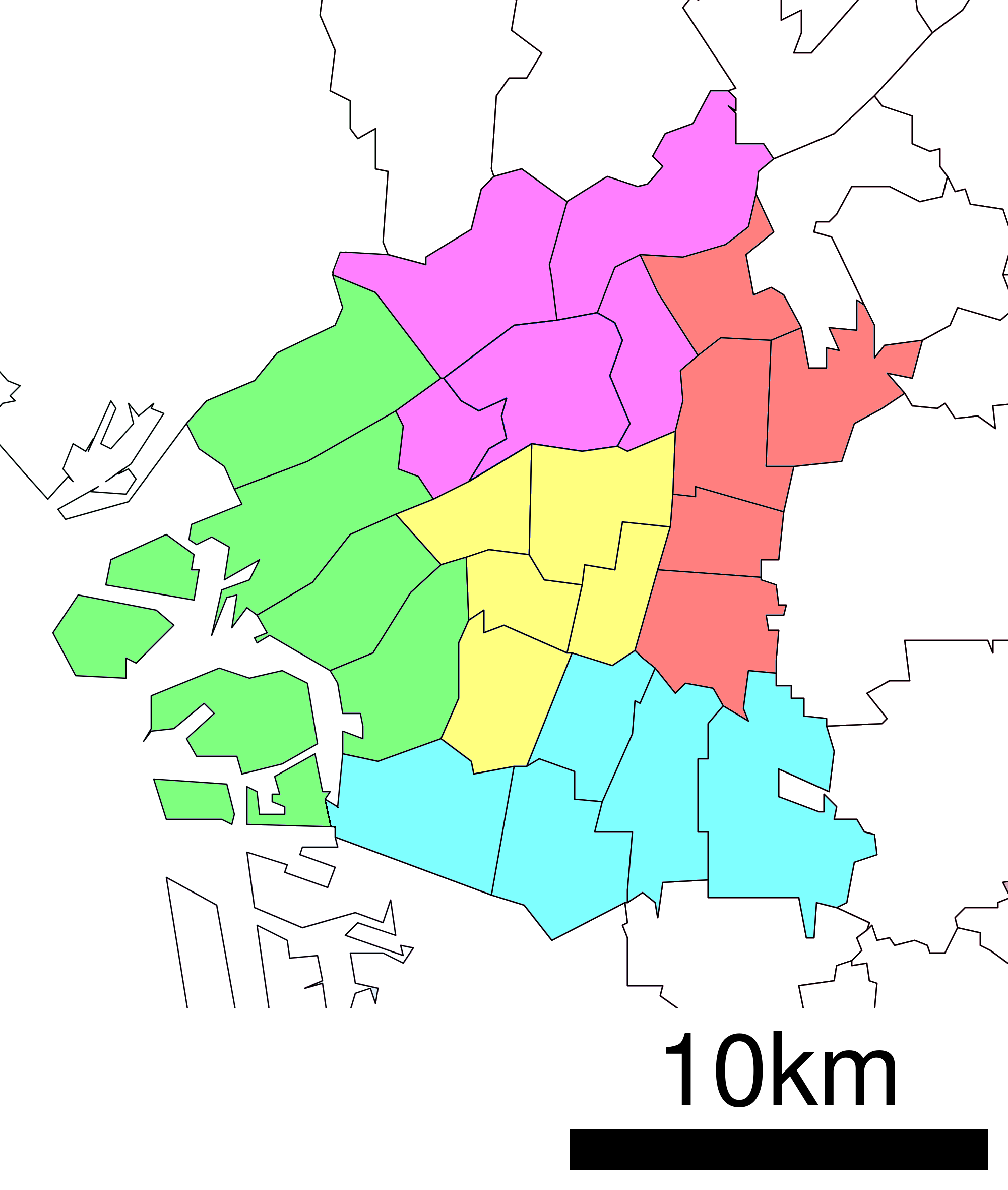 One of OSAKA KUWARI PLAN proposed by Tooru HASHIMOTO as of 23rd July 2014